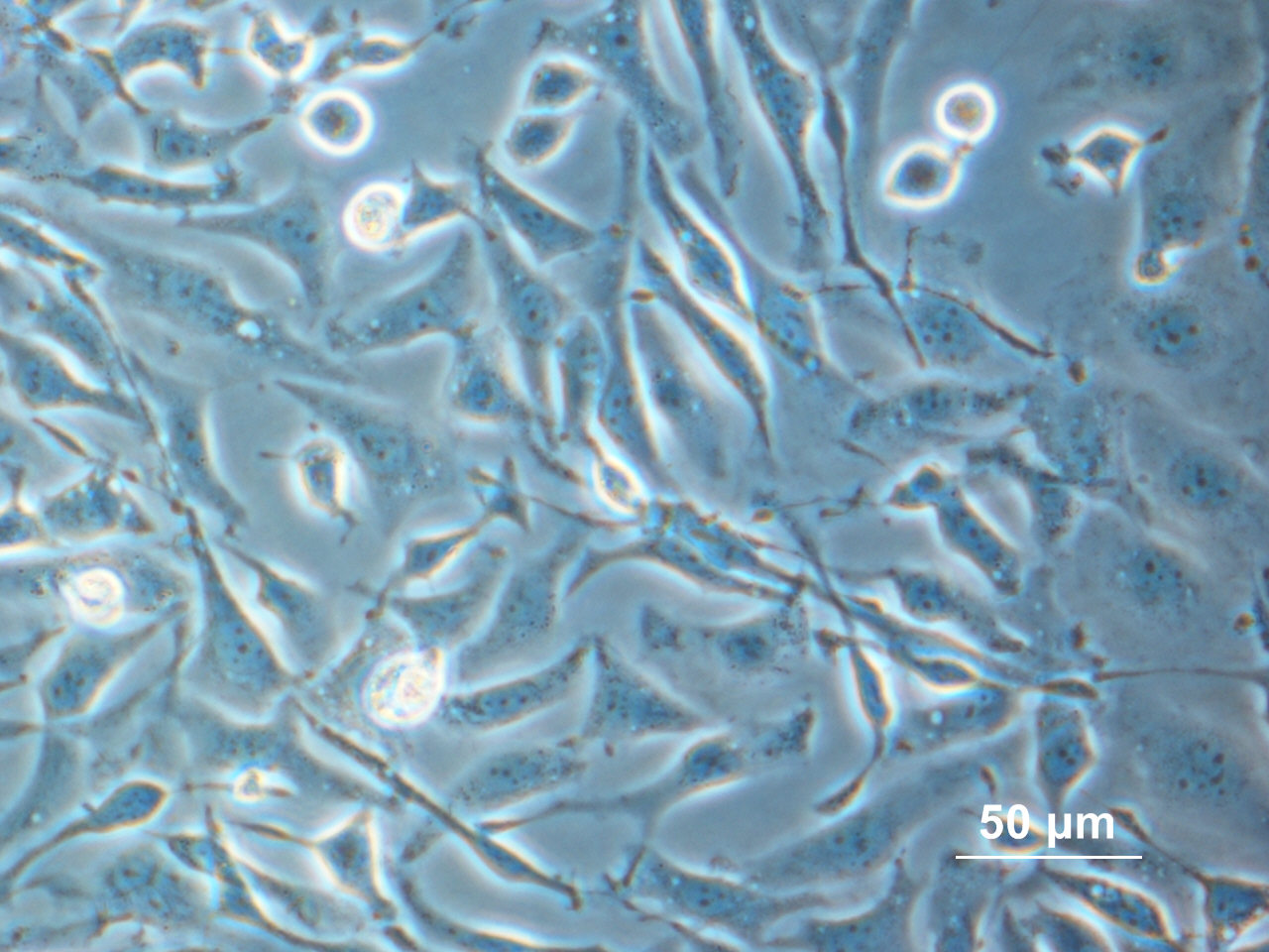 Adherend Chinese hamster ovary (CHO) cells in cell culture flask (phase contrast microscopic view)